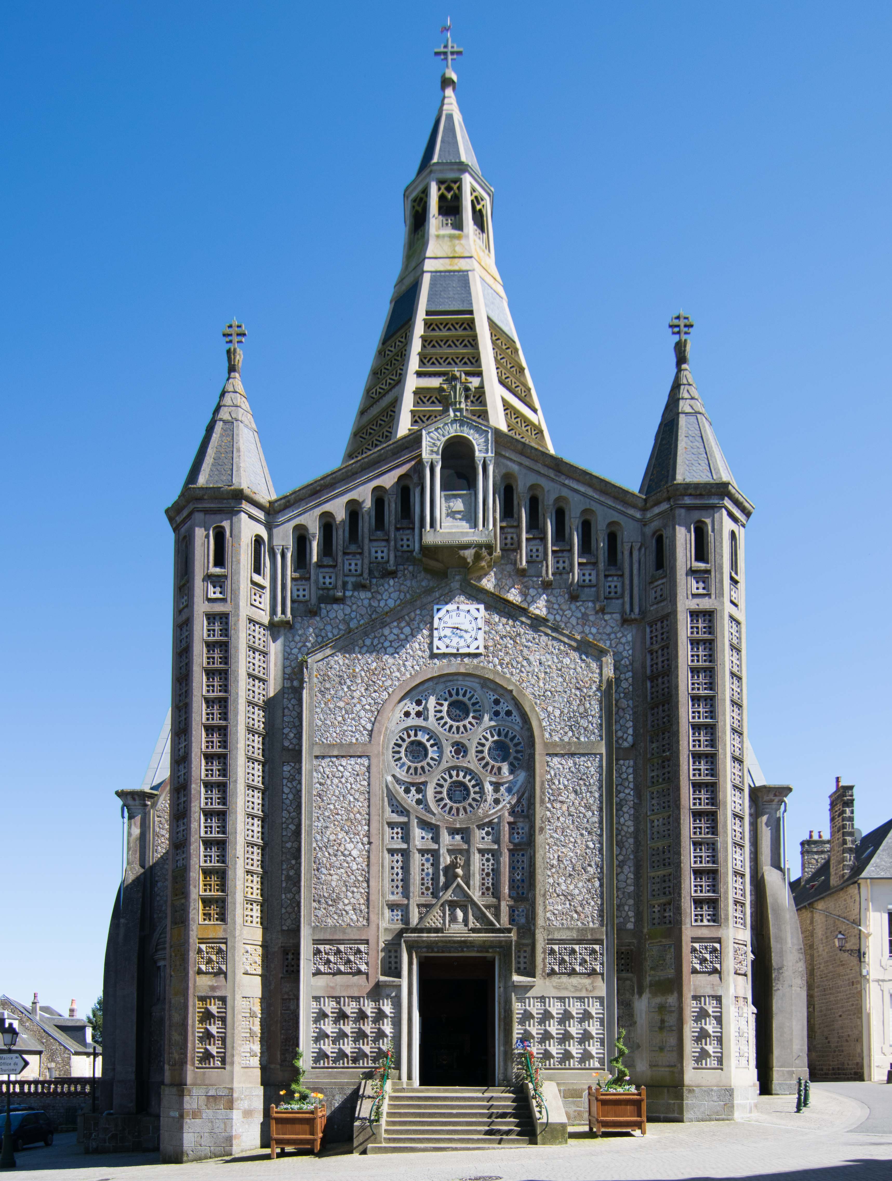 The Saint-Julien de Domfront church, in Domfront, Normandy, France.